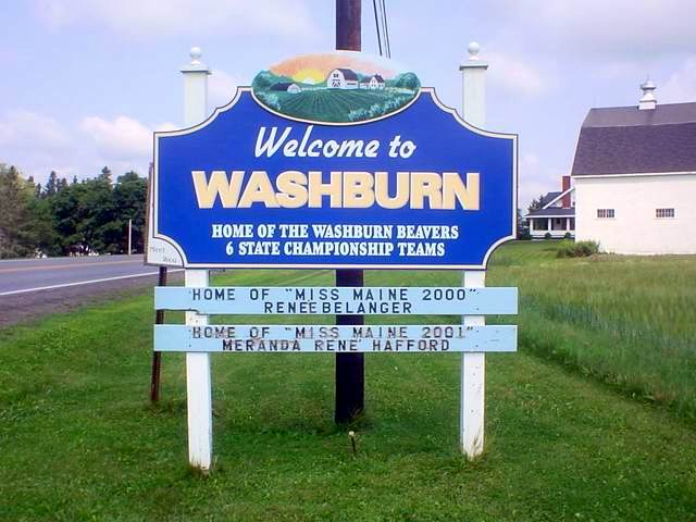 "Welcome to Washburn" sign, photographed July 28, 2008, by Adolphus79.